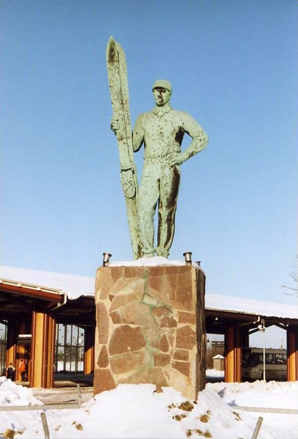 This image shows the skier-memorial in Altenberg in Saxony, Germany.